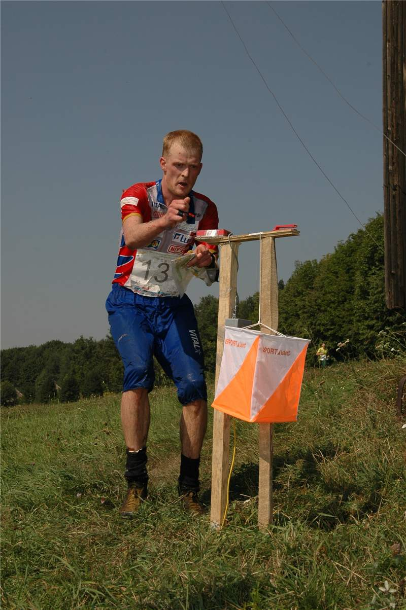 World Orienteering Championships 2007 in Kiev, Ukraine. On photo Norwegian Anders Nordberg.